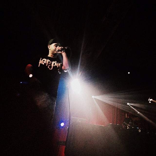 This is an image of J57 during a tour in 2014